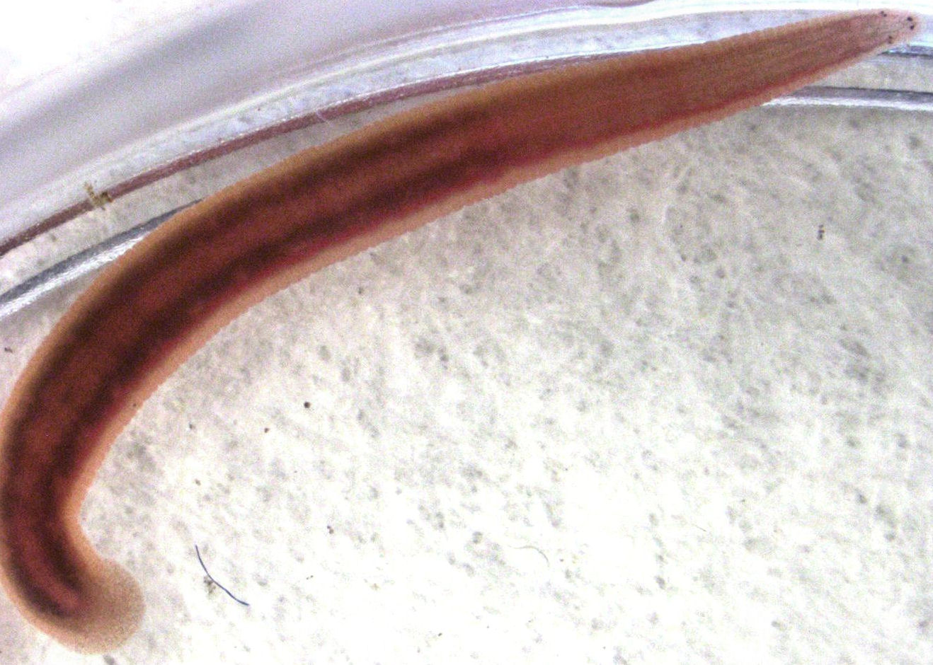 live Barbronia weberi